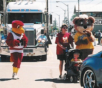 A person dressed up as Zeddy in a parade.